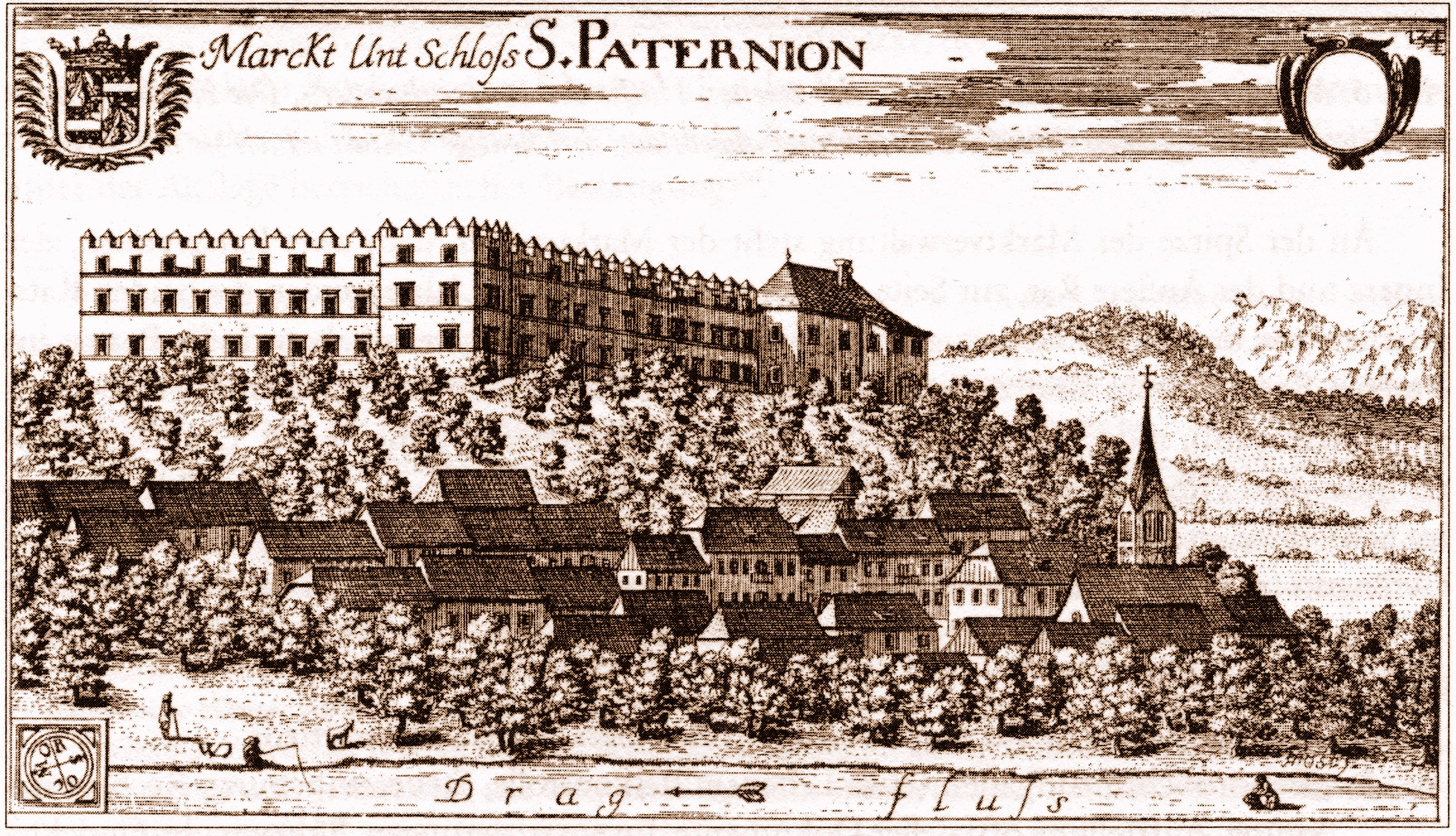 Castle of Paternion district Villach-Land District in Carinthia / Austria / European Union.